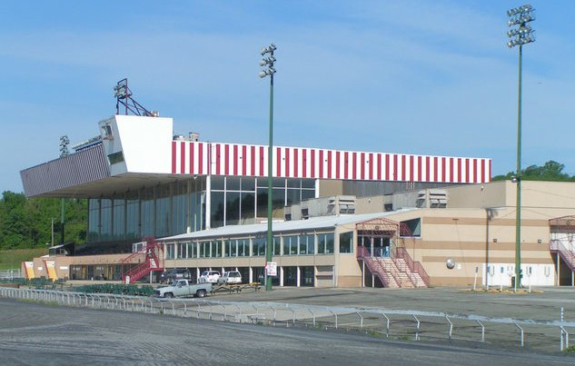 The grandstand of Rosecroft Raceway in 2010